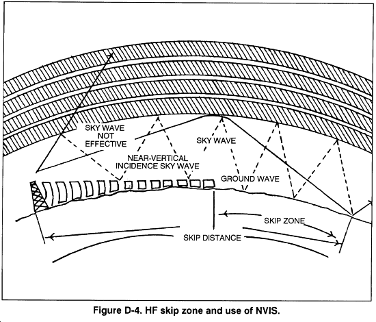 Figure D-4 from U.S. Army Field Manual 79-3.